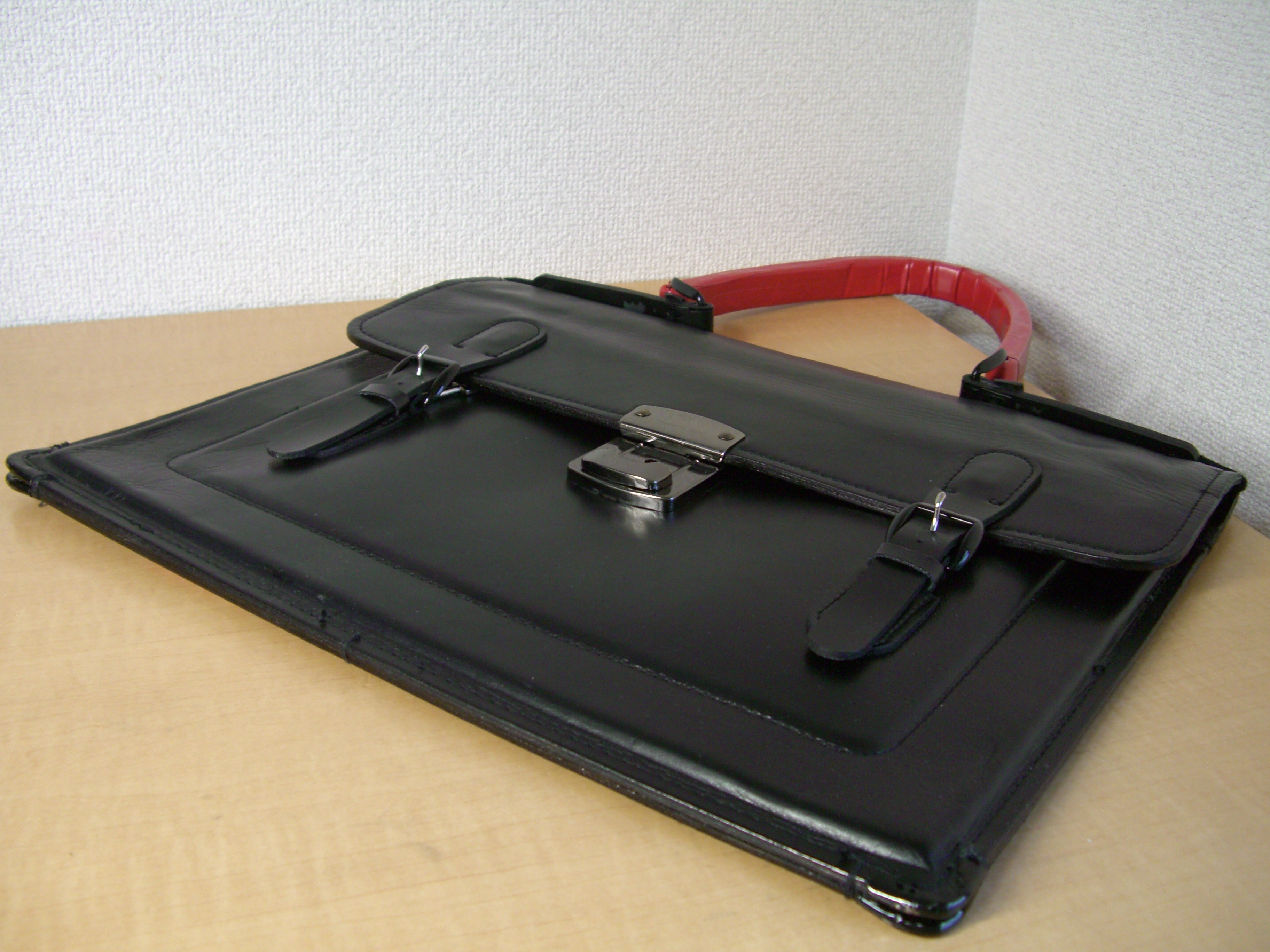 This is a bag of the Japanese student use who smashed it extremely thinly. It tended to violate a school rule to smash a bag in this way, but was prevalent among bad students. It shows intention to want to do a fight to wind up red tape.